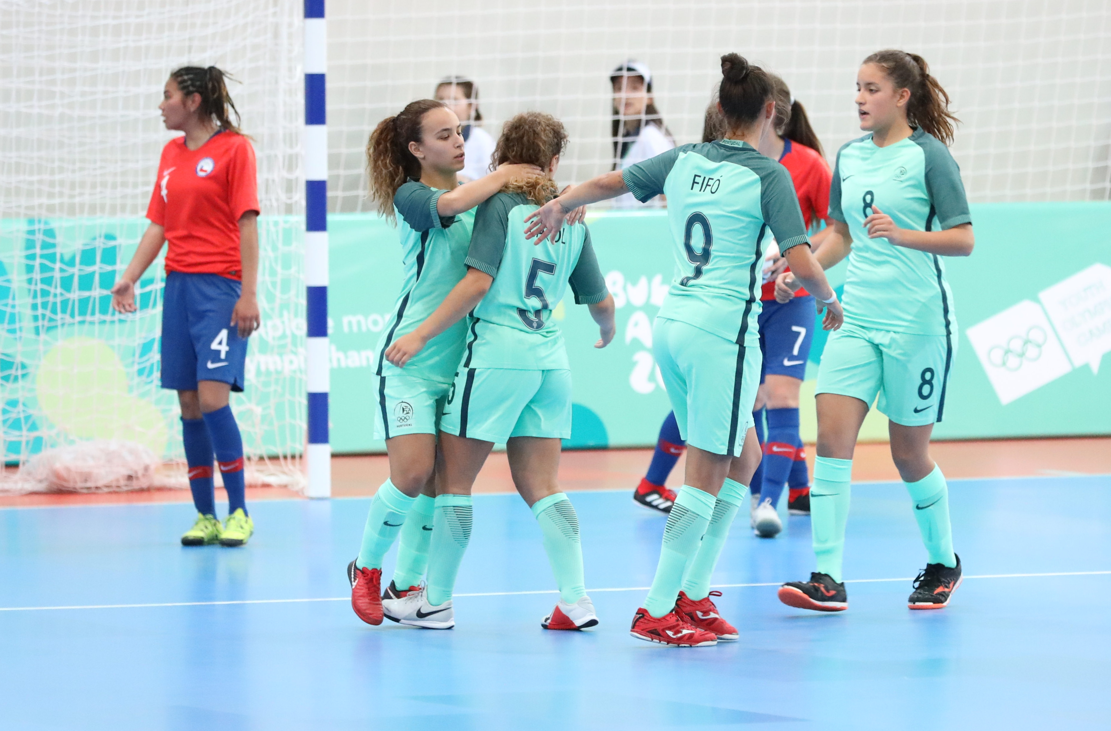 Futsal, Girls First Round: Chile vs. Portugal (2:15)